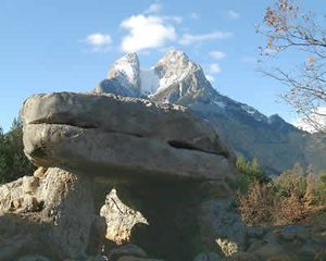 Dolmen of Molers (Saldes), Pedraforca, Catalonia